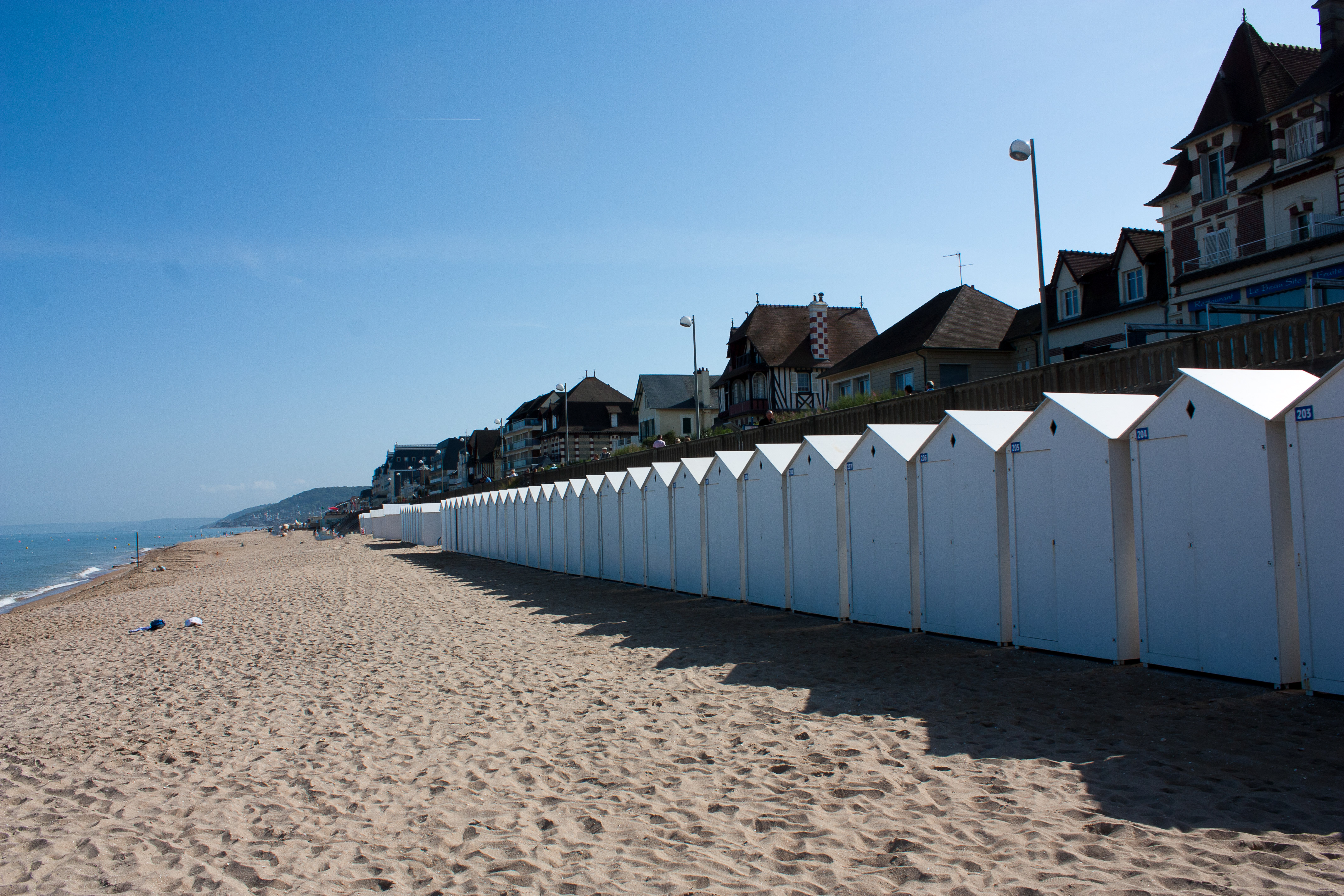 The beach.